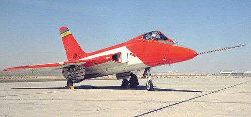 A Douglas F5D-1 Skylancer on ramp with Neil Armstrong preparing to fly a Dyna-Soar simulation. Future Astronaut Neil Armstrong was one of the NASA research pilots assigned to support duties for the Dyna-Soar program. In addition to working at the Boeing facility in Washington state, Armstrong also tested the Dyna-Soar launch abort profile using this F5D-1, which had a similar wing shape to the Dyna-Soar. The aircraft arrived at the Flight Research Center on June 15, 1961. After the Dyna-Soar program was cancelled in December 1963, this F5D-1 continued to be used, serving as a flying simulator for the M2-F2 and as a chase plane for lifting-body flights (providing the lifting-body pilot with an extra set of eyes to assist in emergencies and avert potential crashes) This F5D-1 left the Flight Research Center (later designated the Dryden Flight Research Center) on May 19, 1970, and was donated to the Neil A. Armstrong Museum in Wapakoneta, Ohio. (Text: NASA)